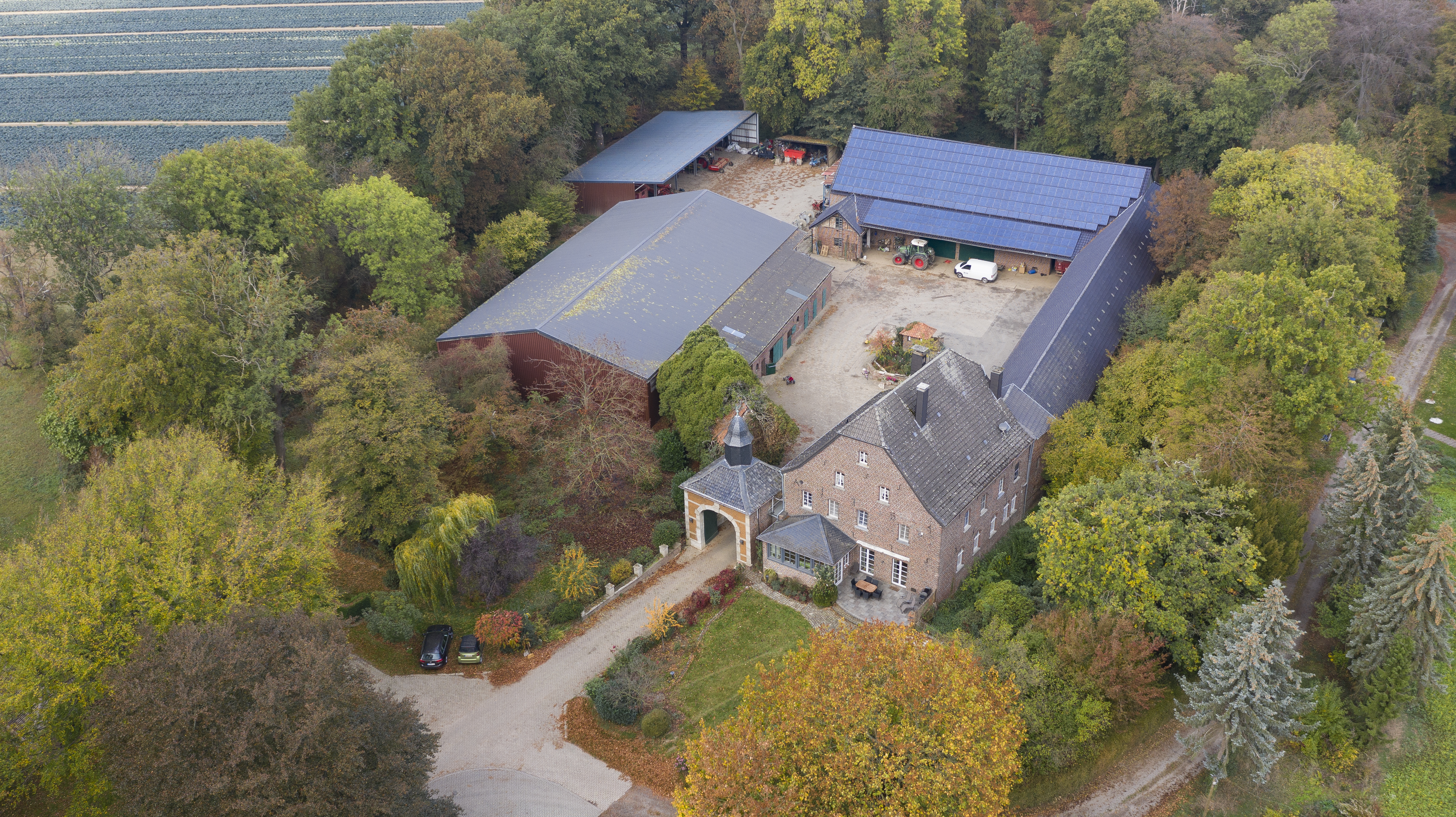 Aerial view of Eggerather Hof, Erkelenz, Germany